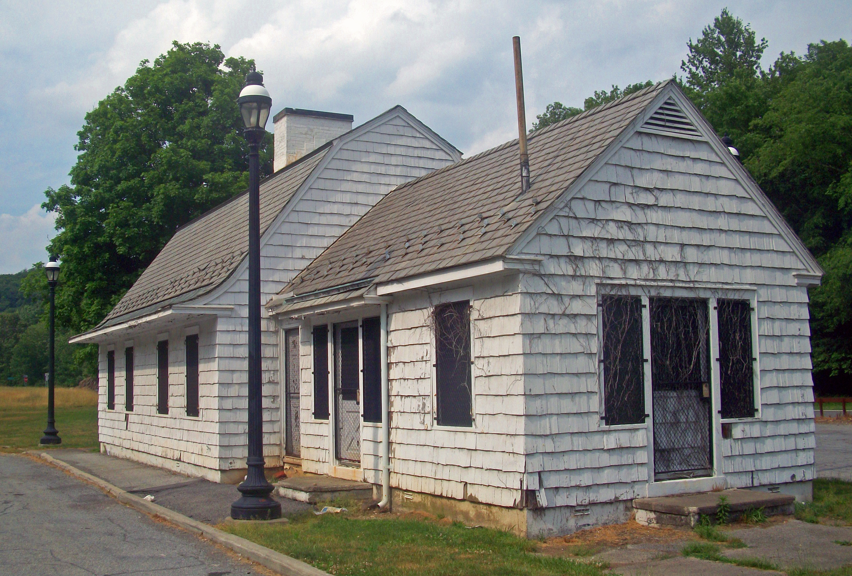 Former rest stop, now closed, near Todd Hill Road crossing on Taconic State Parkway, near Freedom Plains, NY, USA